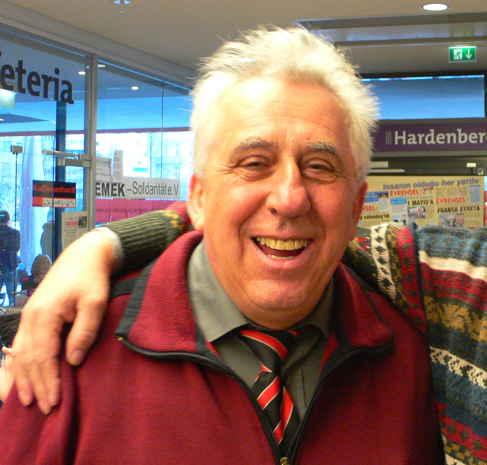 Egon Krenz